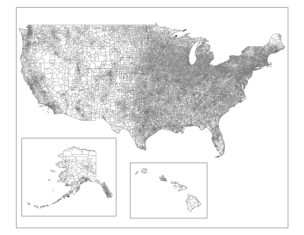 Map of the wire center locations in the United States. Created by Rarelibra 17:55, 26 October 2006 (UTC) for public domain use, using MapInfo Professional v8.5 and various mapping resources.